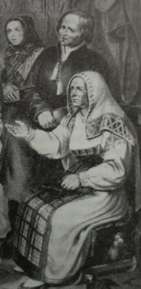 Kreevins (Votic people of Latvia) in their national costumes.